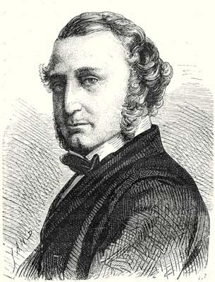 A 19th century sketch portrait of Thomas Russell Crampton, an English engineer born at Broadstairs, Kent, and trained on Brunel's Great Western Railway.